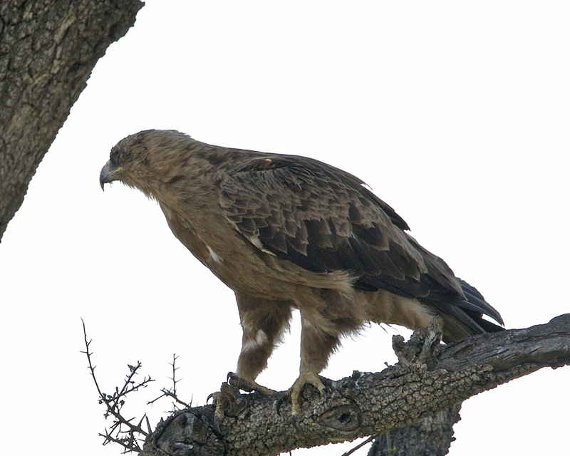 Booted Eagle (Hieraaetus pennatus)